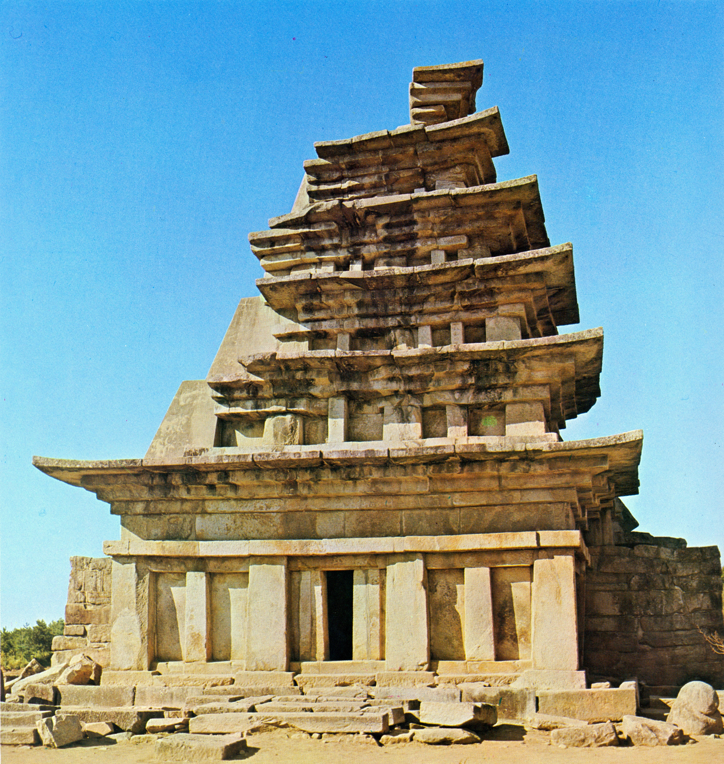 Stone Pagoda at Mireuksa temple site in Iksan, Korea